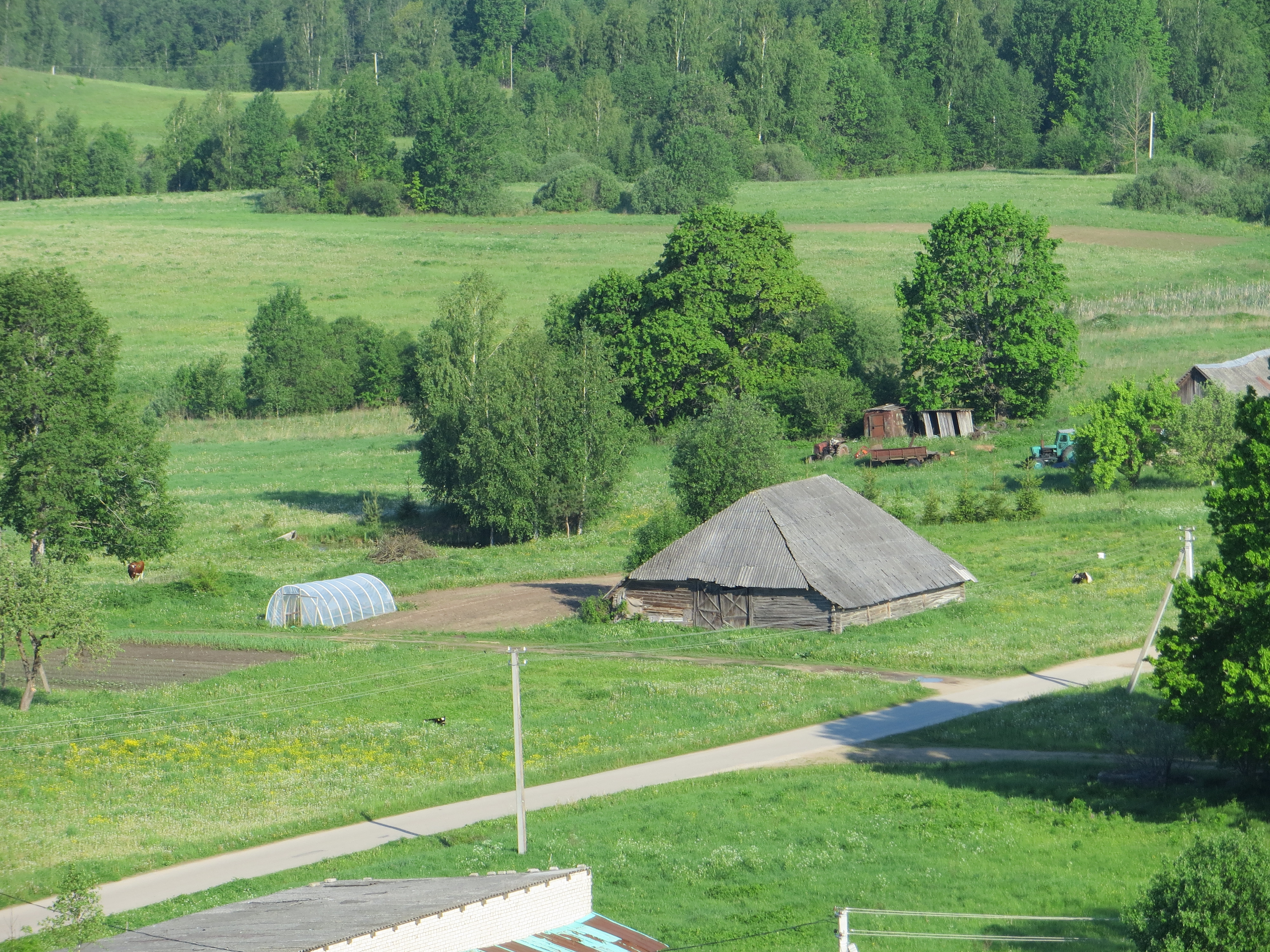 Dubingiai, Lithuania